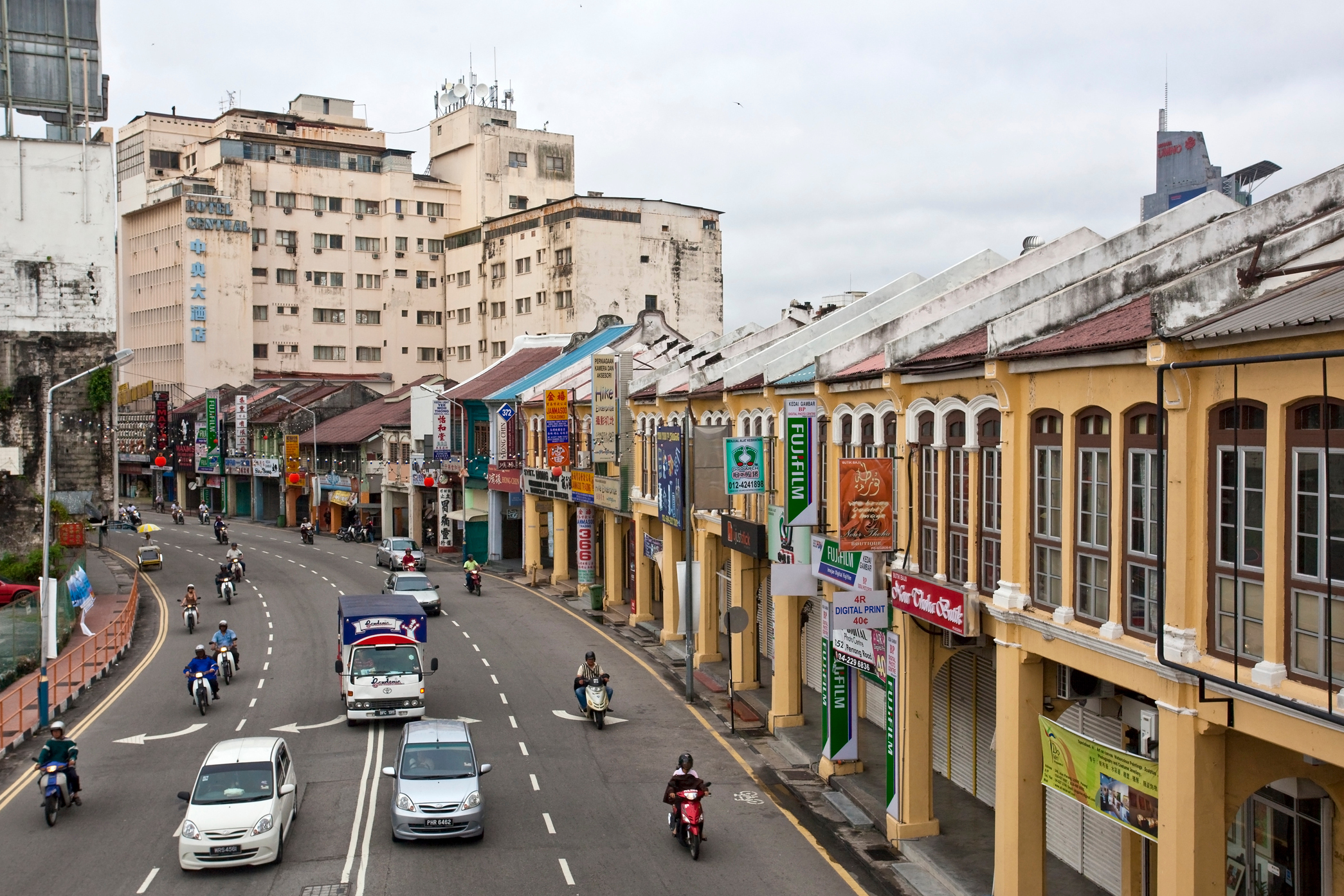 Penang Malaysia - Penang Road early morning view from footbridge